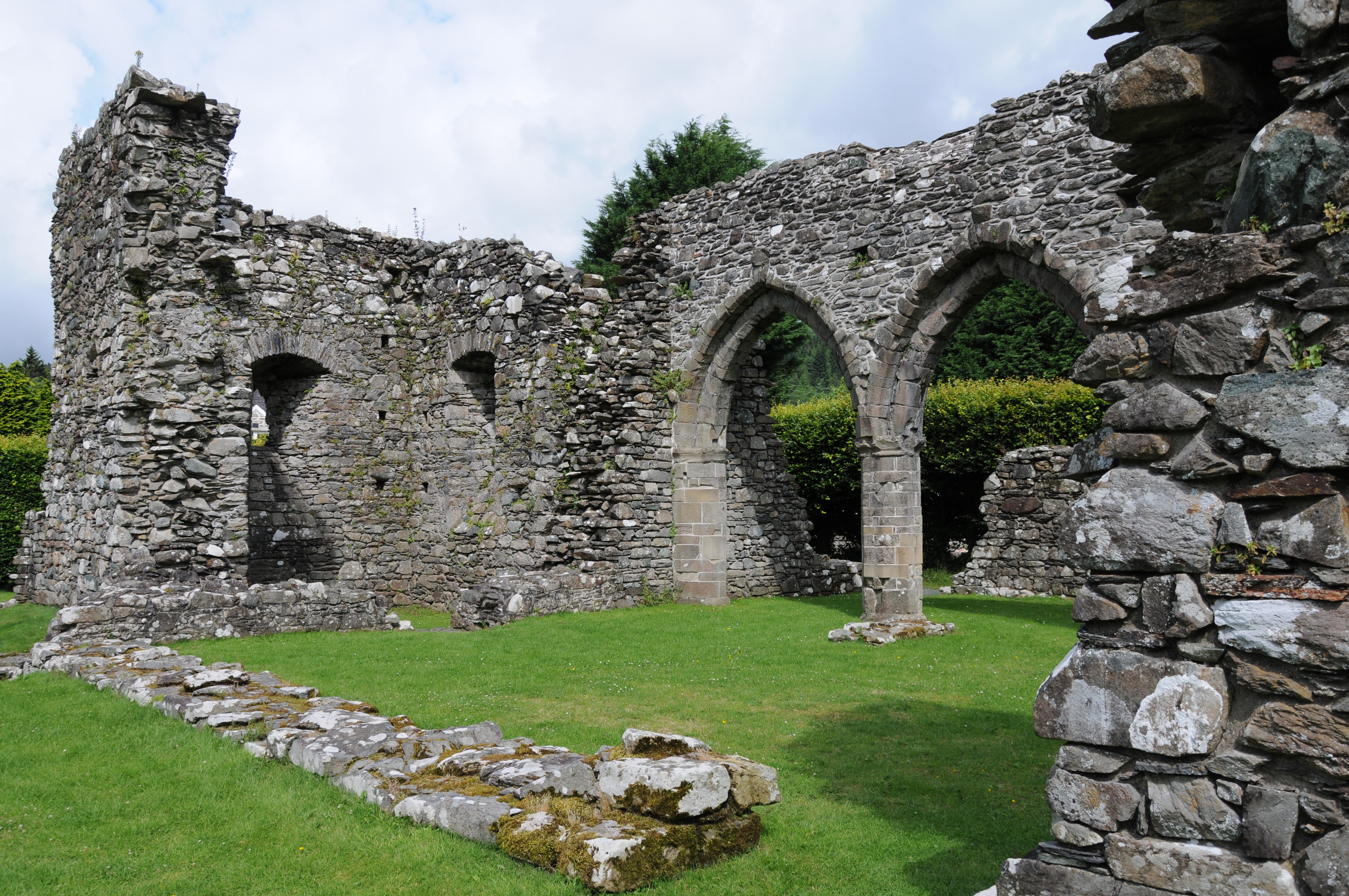 Cymer Abby near Dolgellau, Norh-Wales Cymer Abby, ehemaliges Zisterzienserkloser in Dolgellau, Nord-Wales